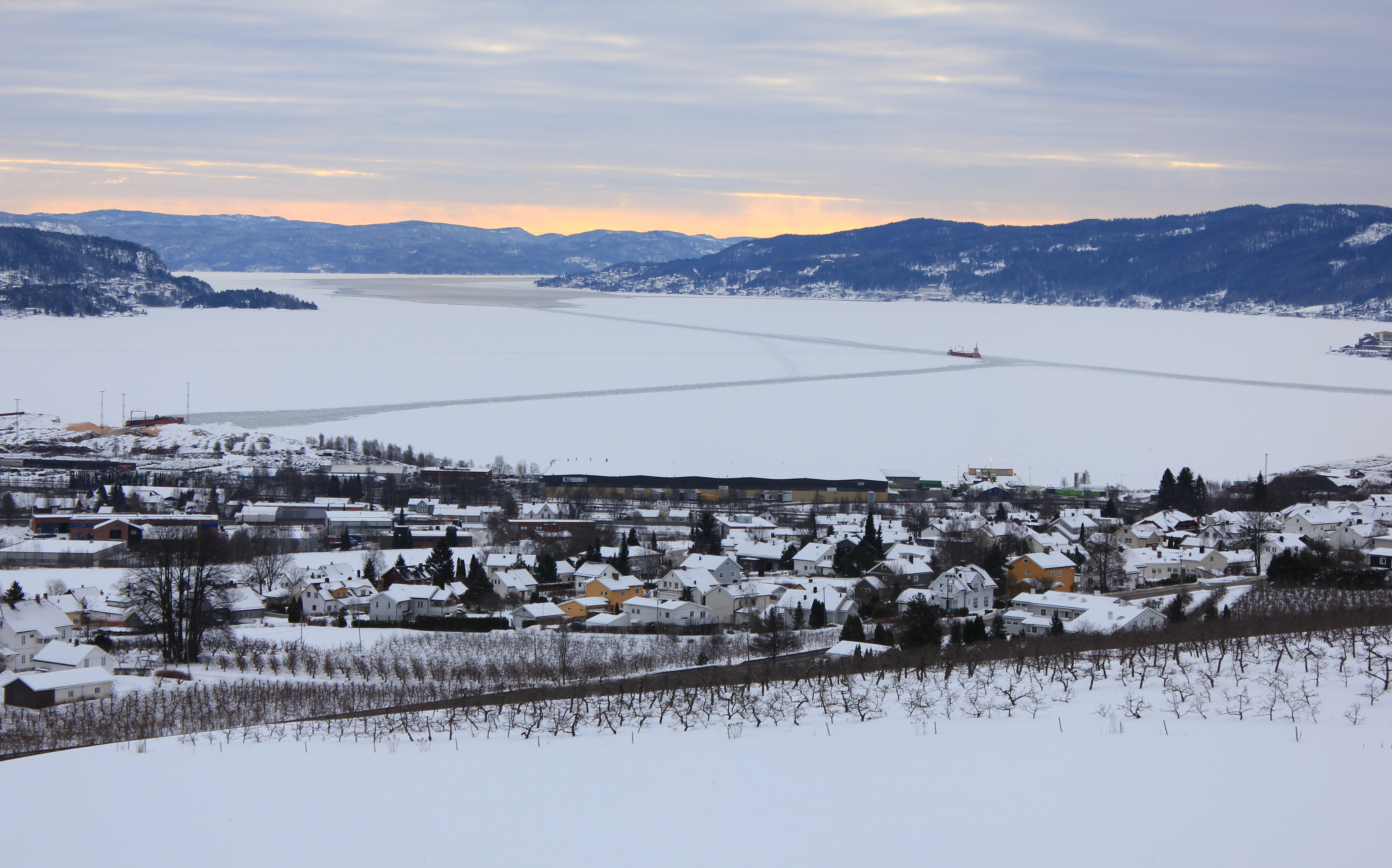 The Drammen Fjord, a fjord branch of the Oslo Fjord, covered with ice.